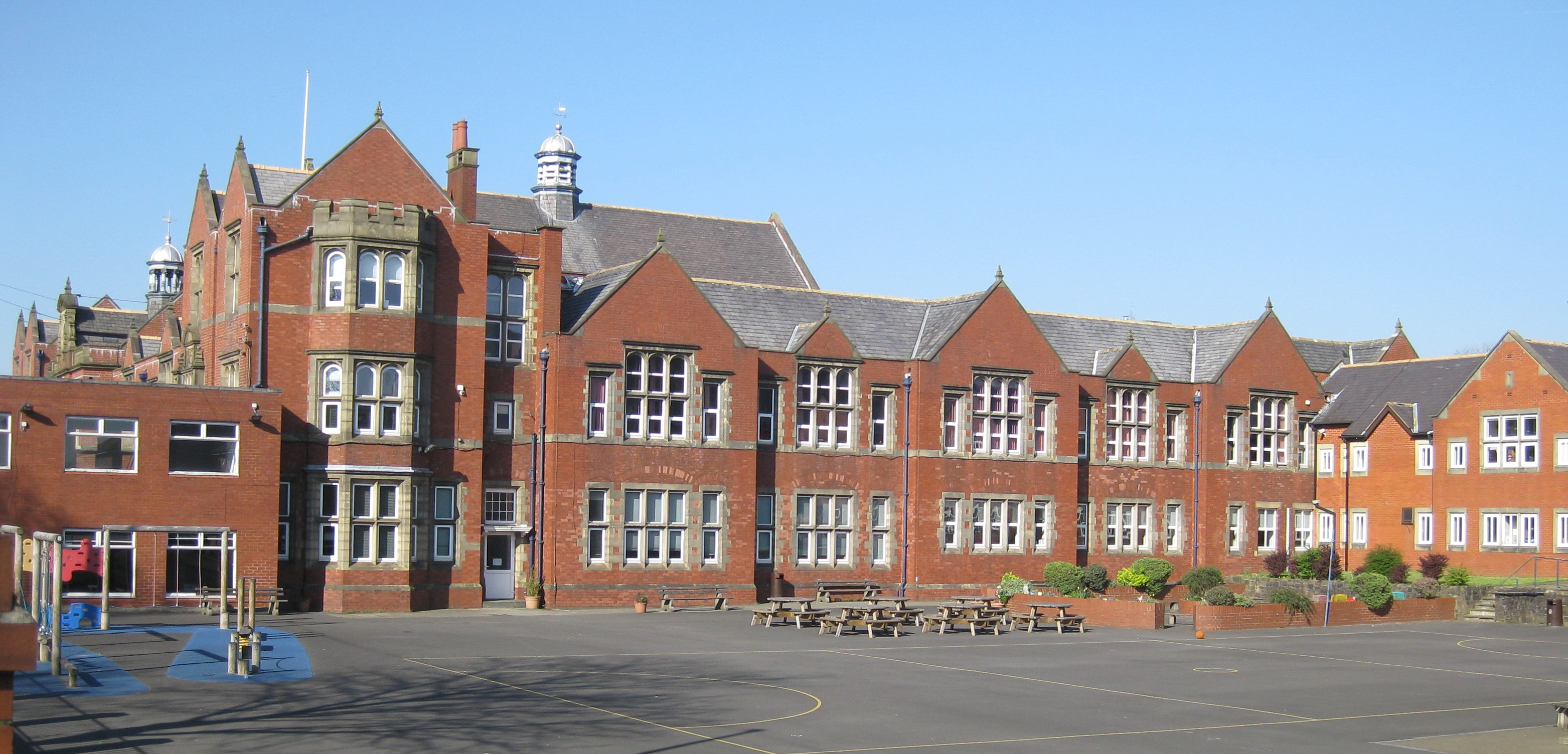 Bury Grammar School Girls. 1906 Building, south side, viewed from Bridge Road.